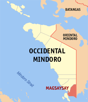 Map of Occidental Mindoro showing the location of Magsaysay